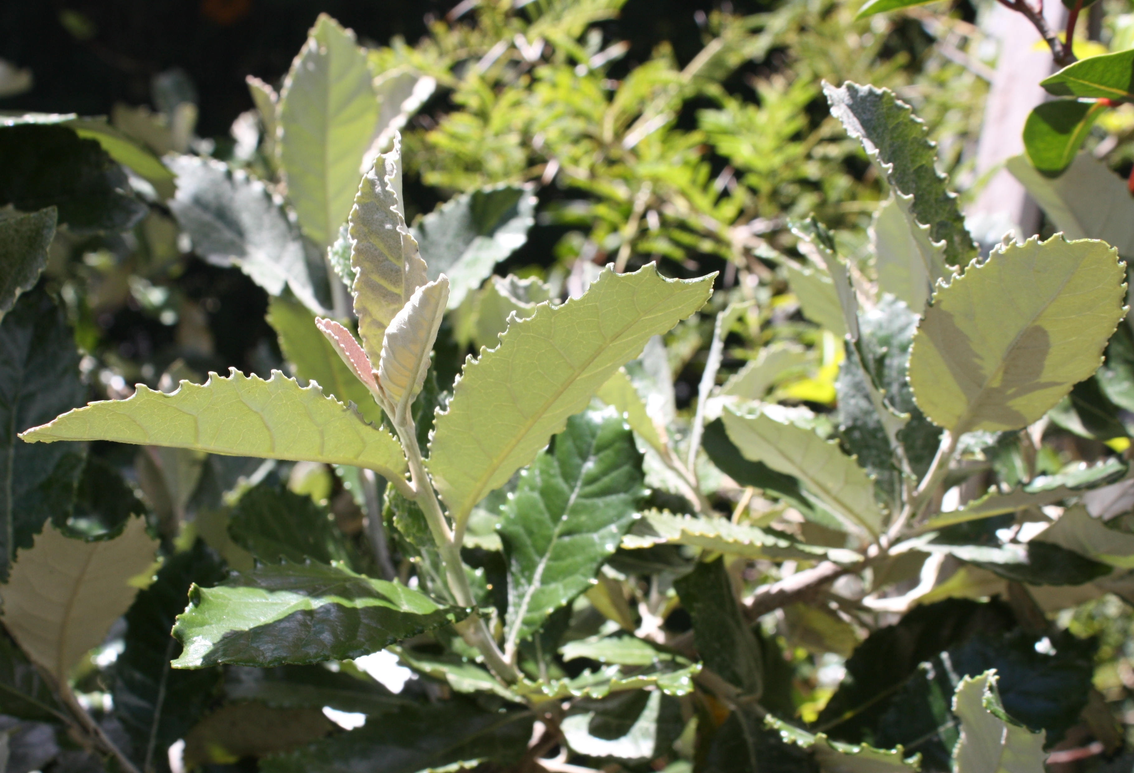 Leaves of the Brachylaena discolor tree. Photo taken in South Africa.